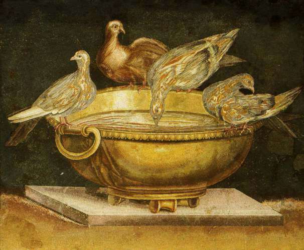 Mosaic showing doves drinking from a bowl, from Hadrian's villa, 2nd century AD, copied from 2nd BC original by Sosus of Pergamon